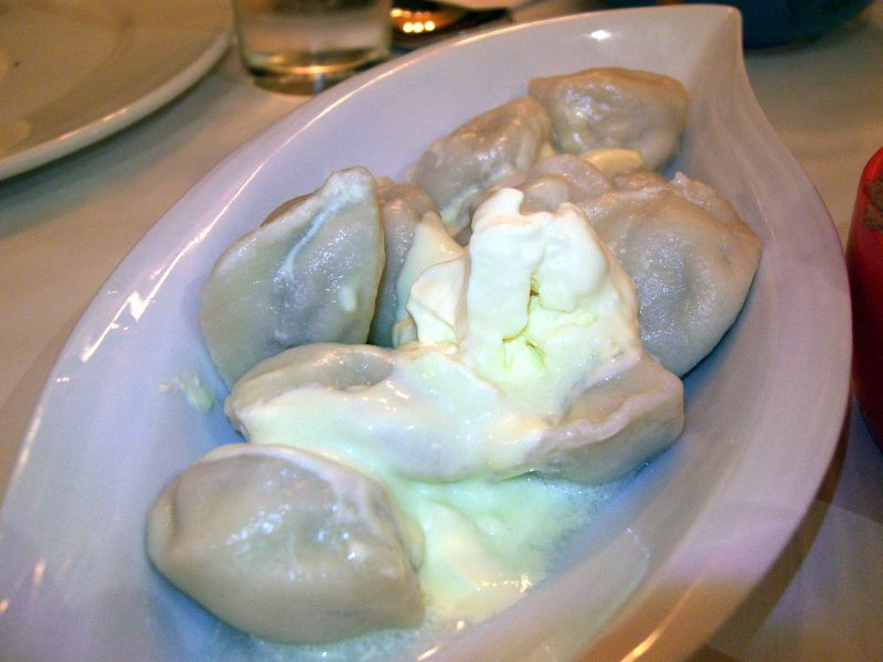 Meaty dumplings served with sour cream